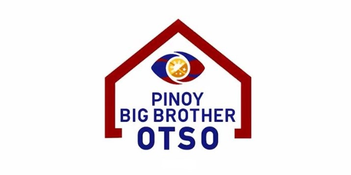 Pinoy Big Brother: Otso is the upcoming eighth season of reality television series Pinoy Big Brother.